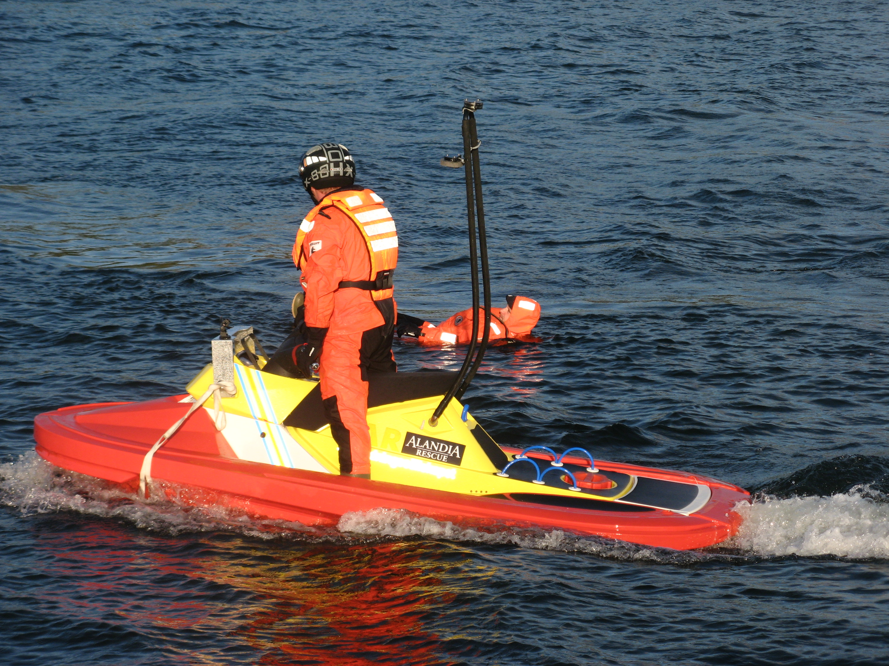 Rescue demonstration with personal water craft with rescue platform, by the sea rescue society of Åland.